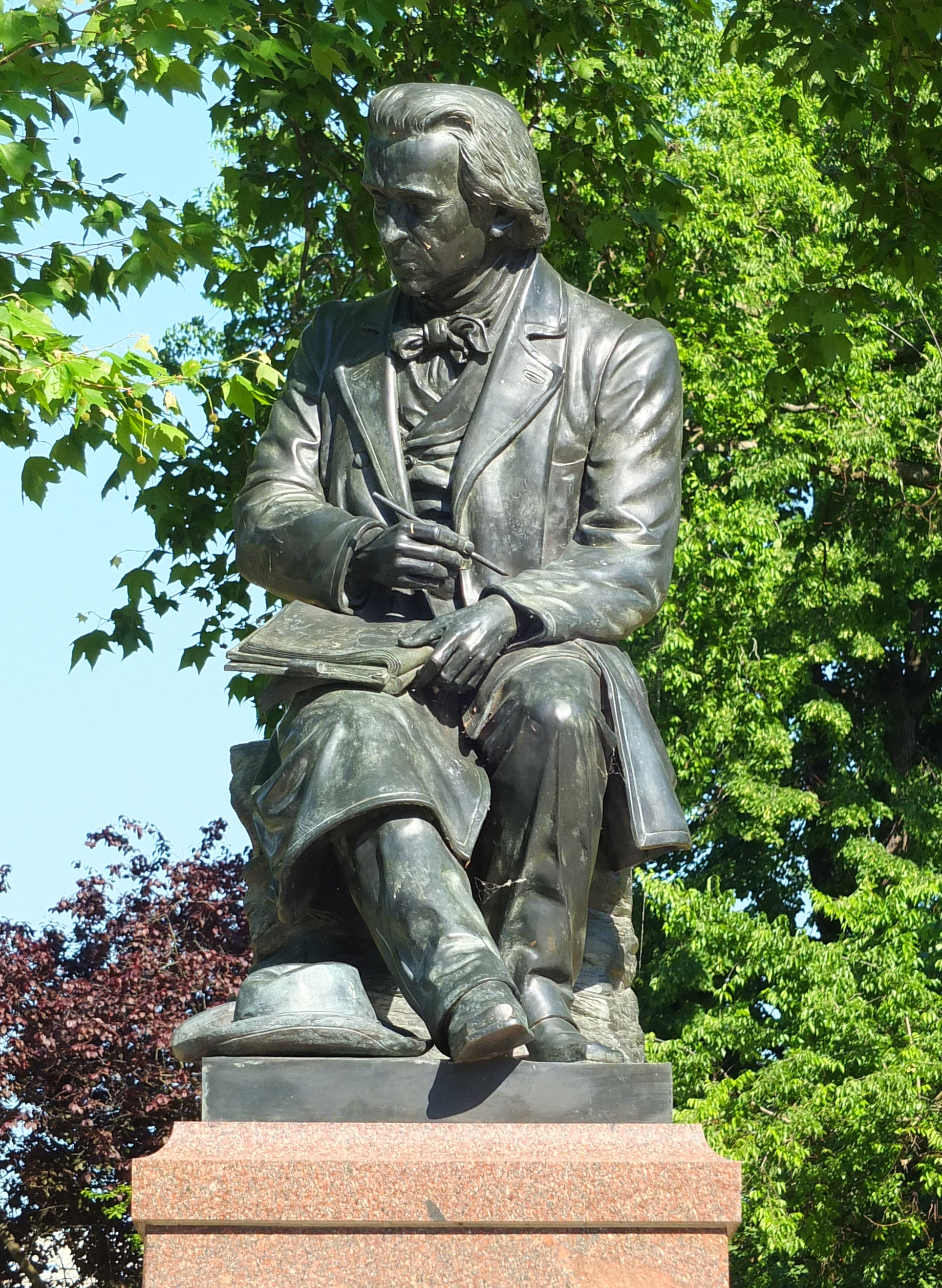 Statue of Adrian Ludwig Richter (1803-1884) by Victor Eugen Kircheisen at Brühl's Trraces in Dresden, Germany. In 1943 the original statue was requisitioned for the German war effort. This replica dates from 2011.